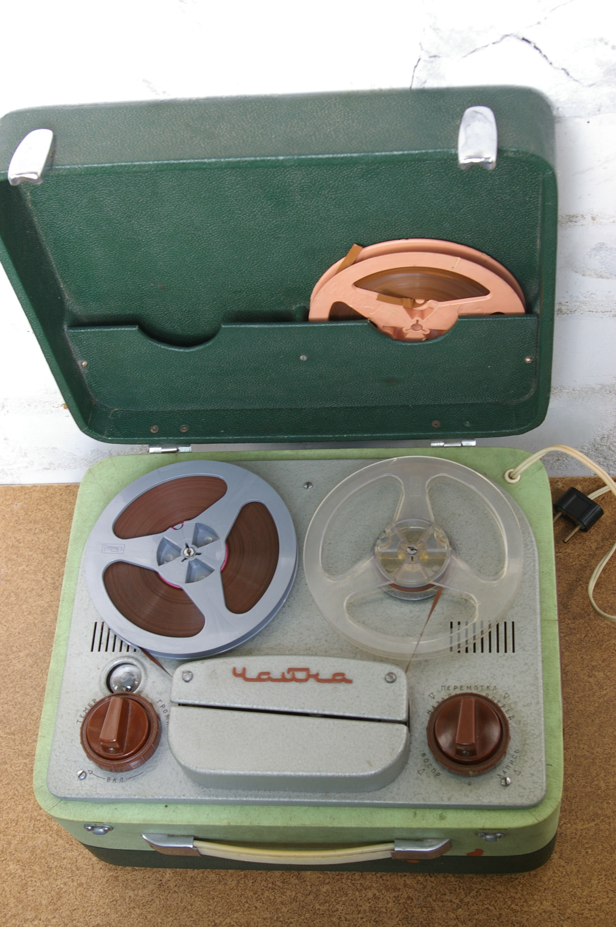 Chaika two-track one-speed mono tape recorder, 1960 model, Velikiye Luki Radio Plant, USSR.